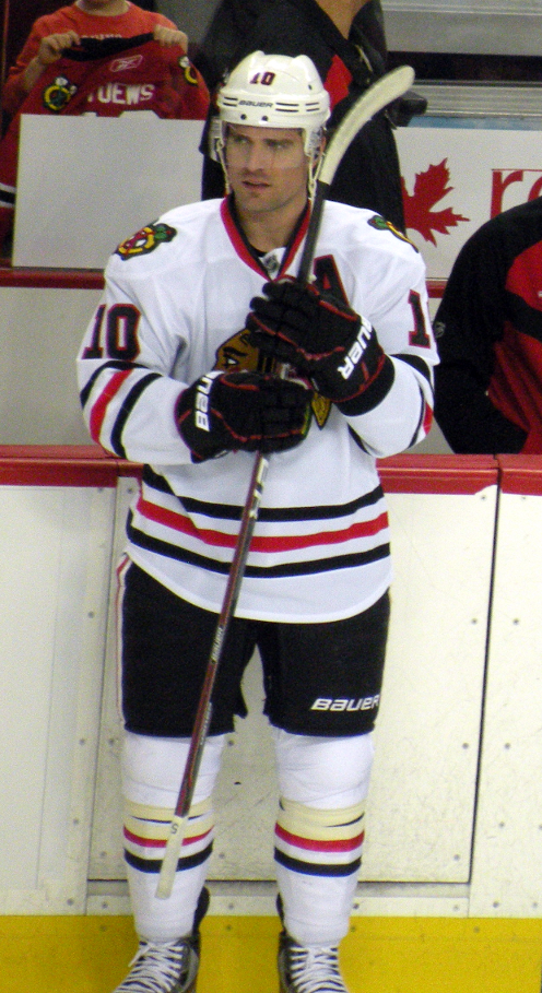 Chicago Blackhawks forward Patrick Sharp prior to a National Hockey League game against the Calgary Flames.